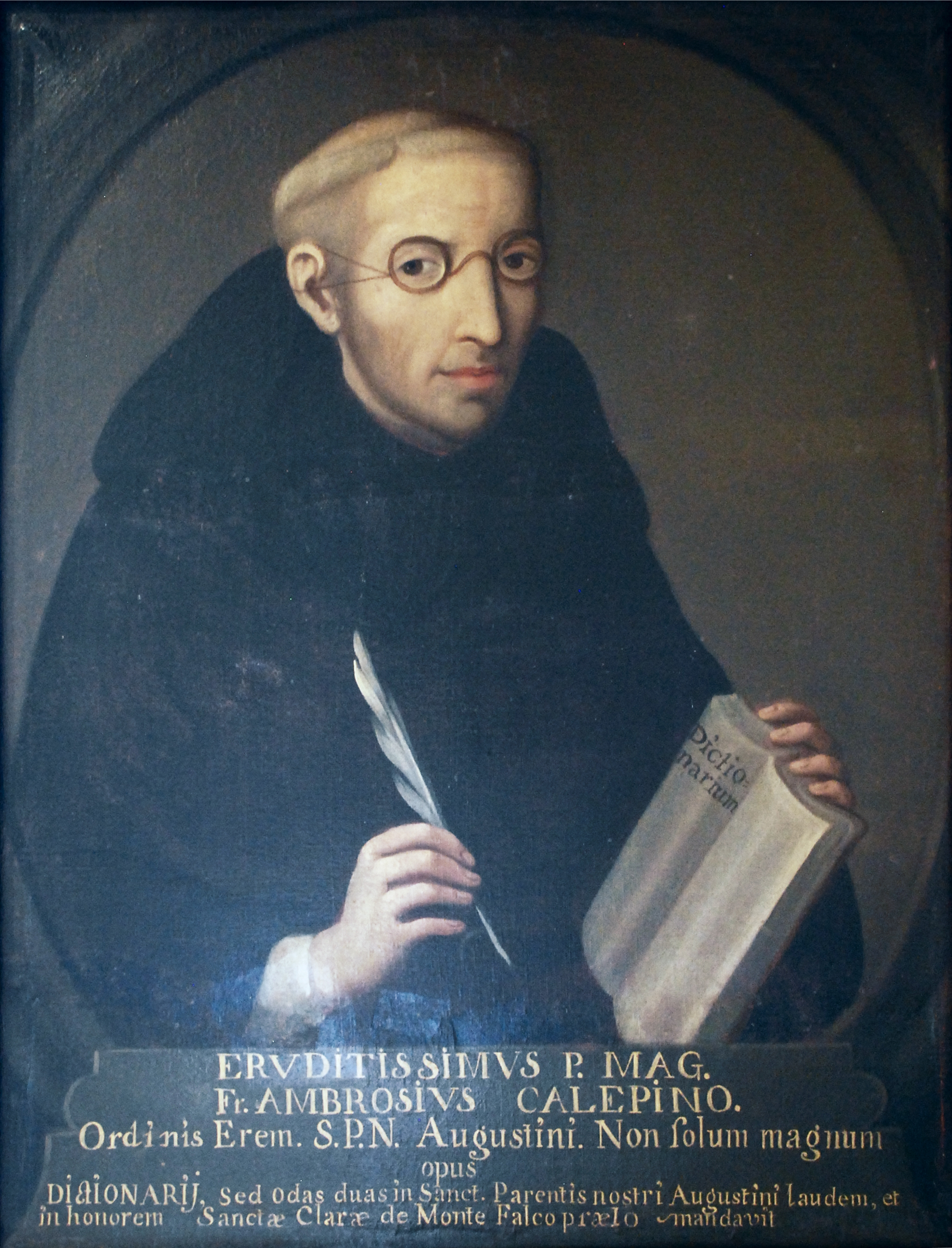 Portrait Ambrogio Calepio at the Viceregal Museum of the former monastery of Acolman, Mexico State, Mexico. This picture is derived from User:AlejandroLinaresGarcia's File:AmbrosiusCalepinoAcolman.JPG